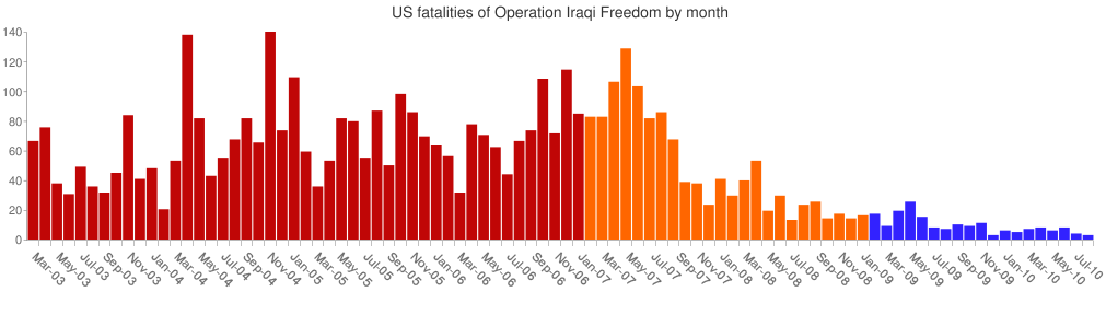 A bar graph showing the complete US fatalities from Operation Iraqi Freedom by month, from beginning to end. Based on this Google Chart API graph, with further editing in Photoshop. The red months are pre-troop surge, the orange months are post-troop surge, and the blue months are under Obama. Although overall month-on-month figures have decreased, the total level of coalition forces has also reduced.